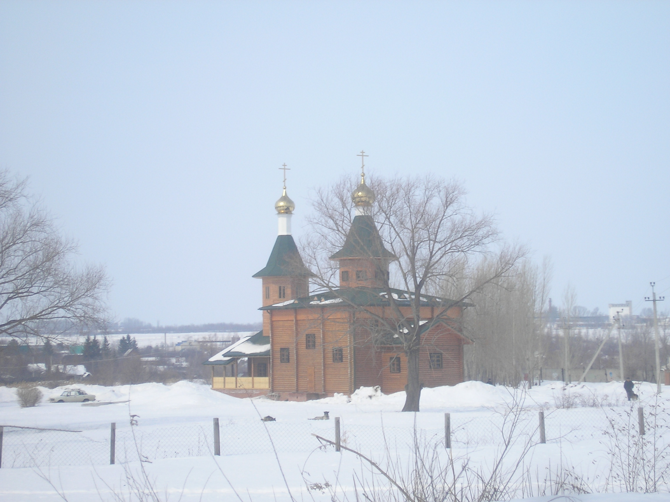 Church in Elshanka in Saratov.